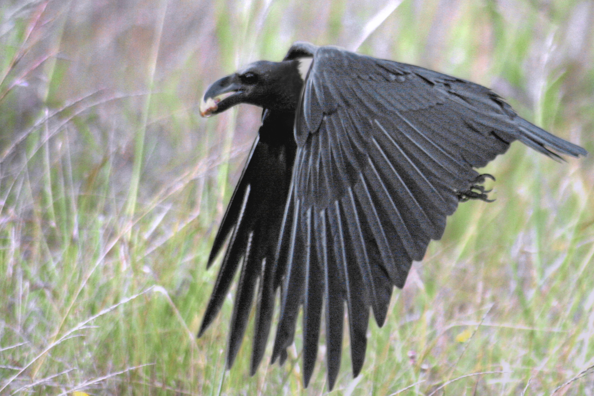 A White-necked Raven (Corvus albicollis) in Durban, South Africa